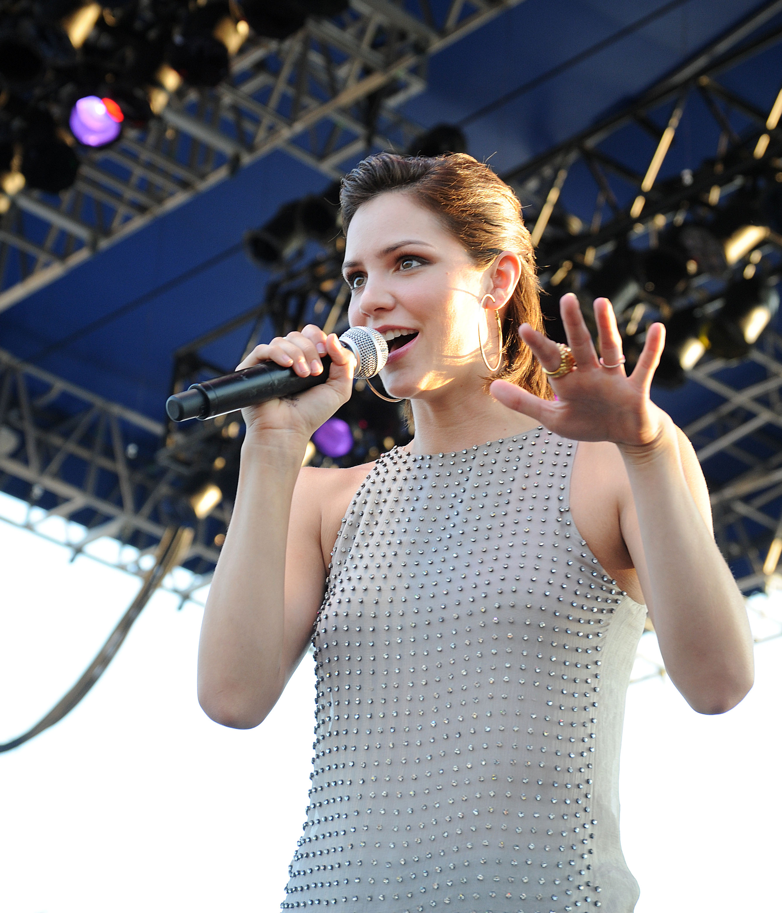 Katharine McPhee.